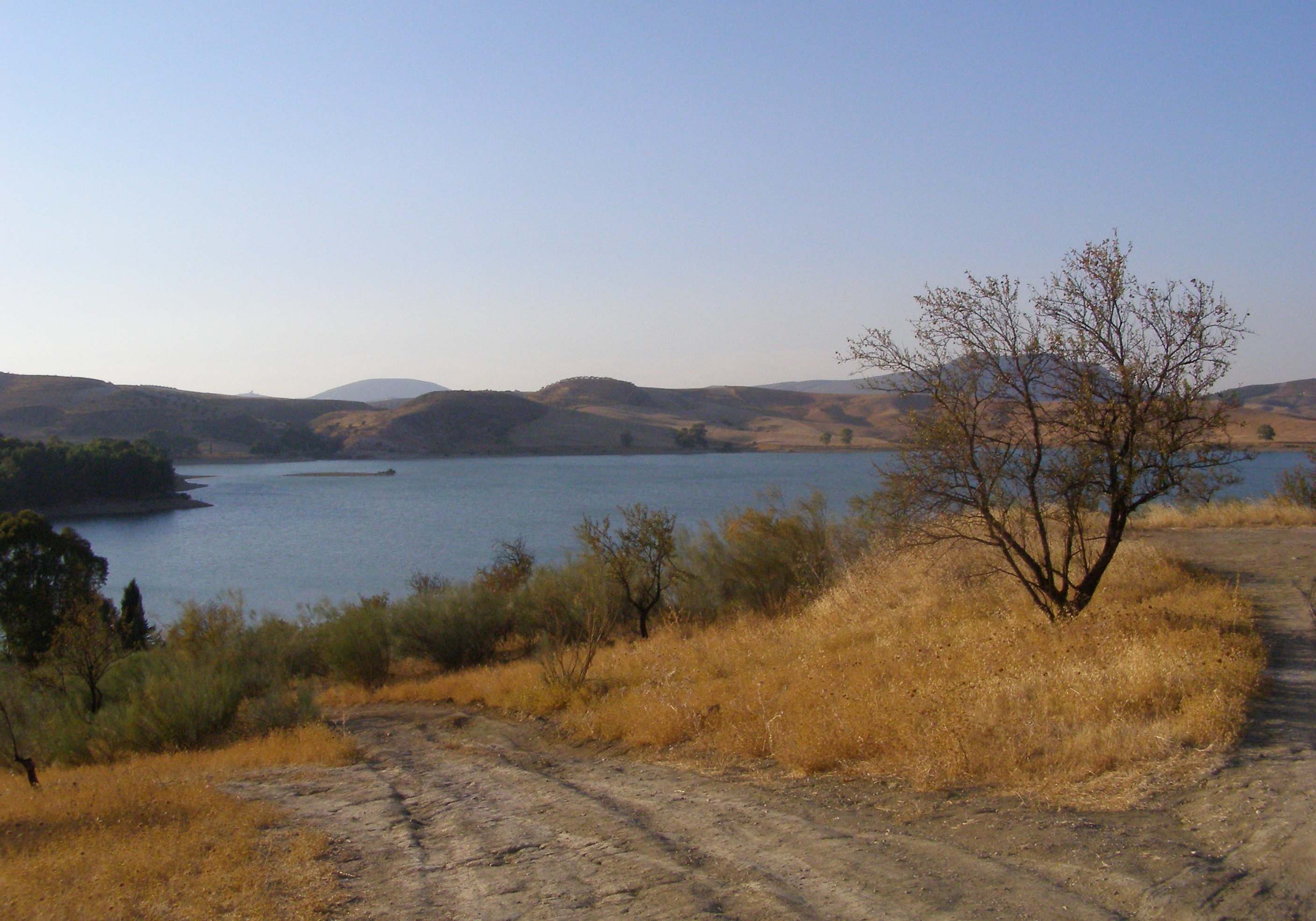 Ardales - Embalse del Conde reservoir